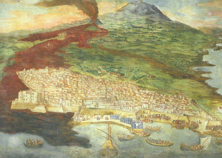 Giacinto Platania, Catania reached by the lava during the 1669 eruption of Mount Etna. Fresco in the Cathedral of Catania.